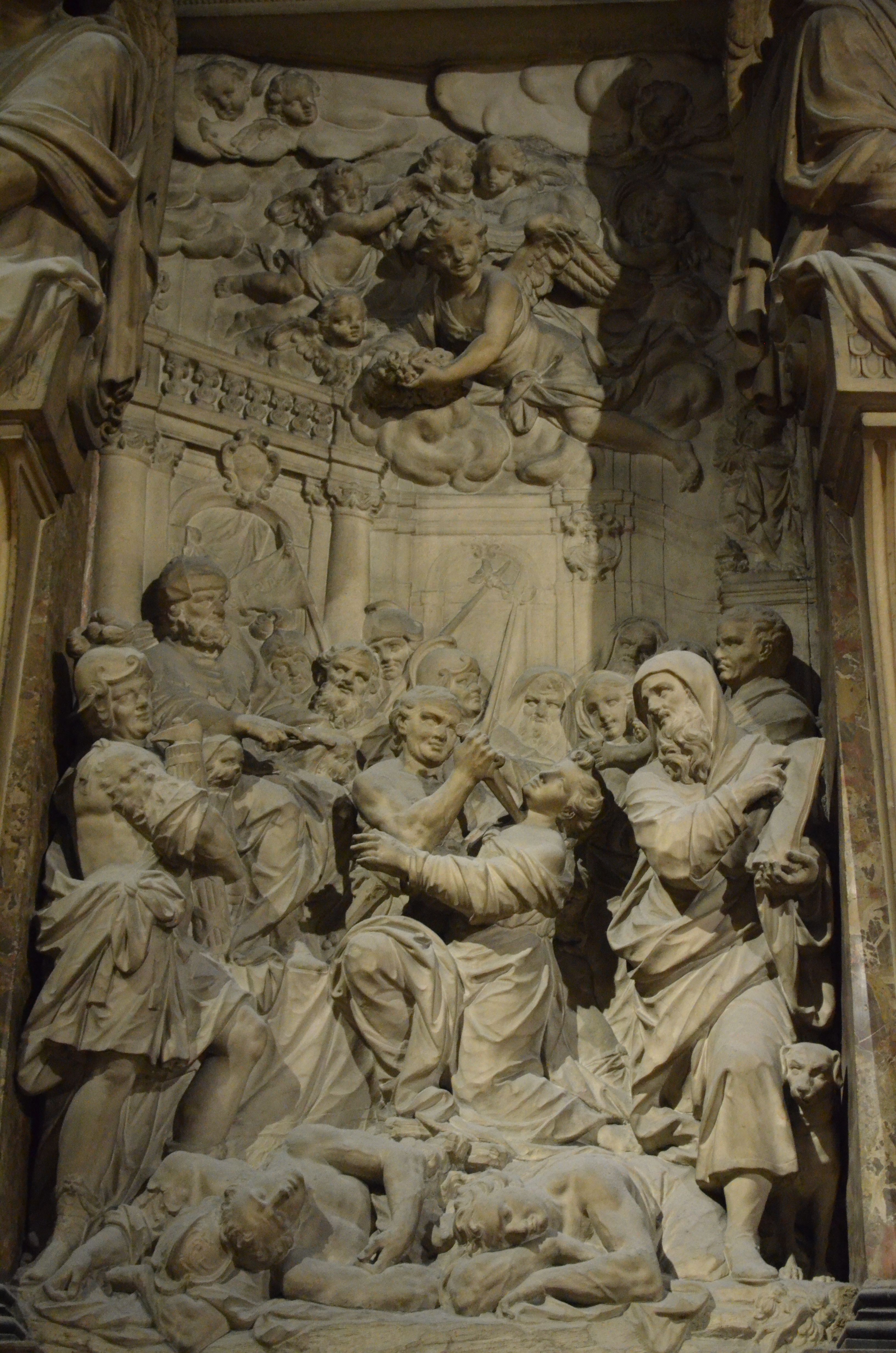 Cathedral in Milan, Italy. Carlo Beretta, Martyrdom of Saint Agnes, in the right-hand transept (1754).